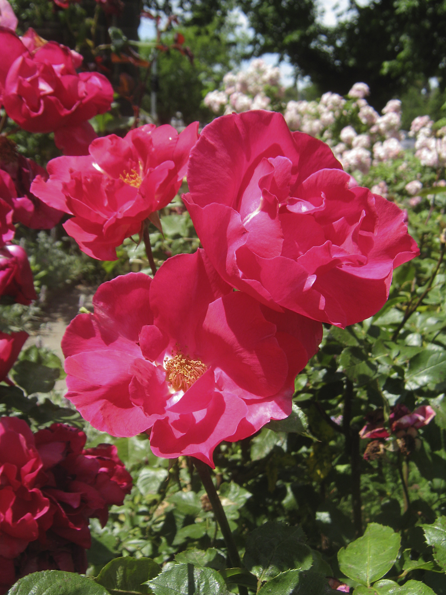 Rose 'Editor Stewart', Hybrid Tea by Alister Clark 1931; Photographed in the Alister Clark Memorial Rose Garden, Bulla, Victoria